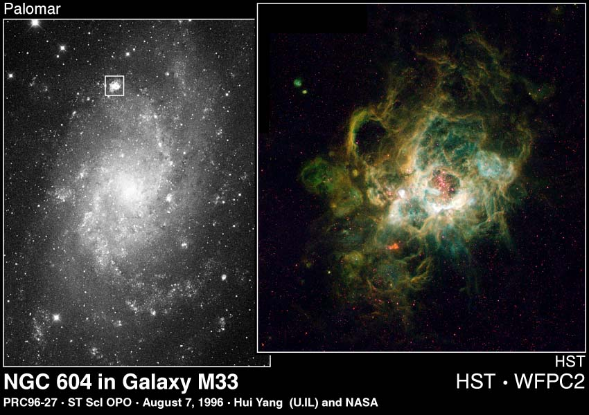 The nebula cataloged as NGC 604 is a giant star forming region, 1500 light years across, in the nearby spiral galaxy, M33. Over 200 newly formed, hot, massive, stars are scattered within a cavern-like, gaseous, interstellar cloud. The stars irradiate the gas with energetic ultraviolet light stripping electrons from atoms and exciting them — producing a characteristic nebular glow.